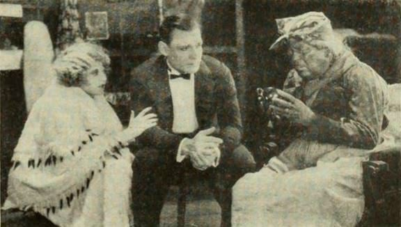 Still from the American film The Fast Mail (1922) with Eileen Percy and Buck Jones, page 59 of the September 1922 Photoplay.